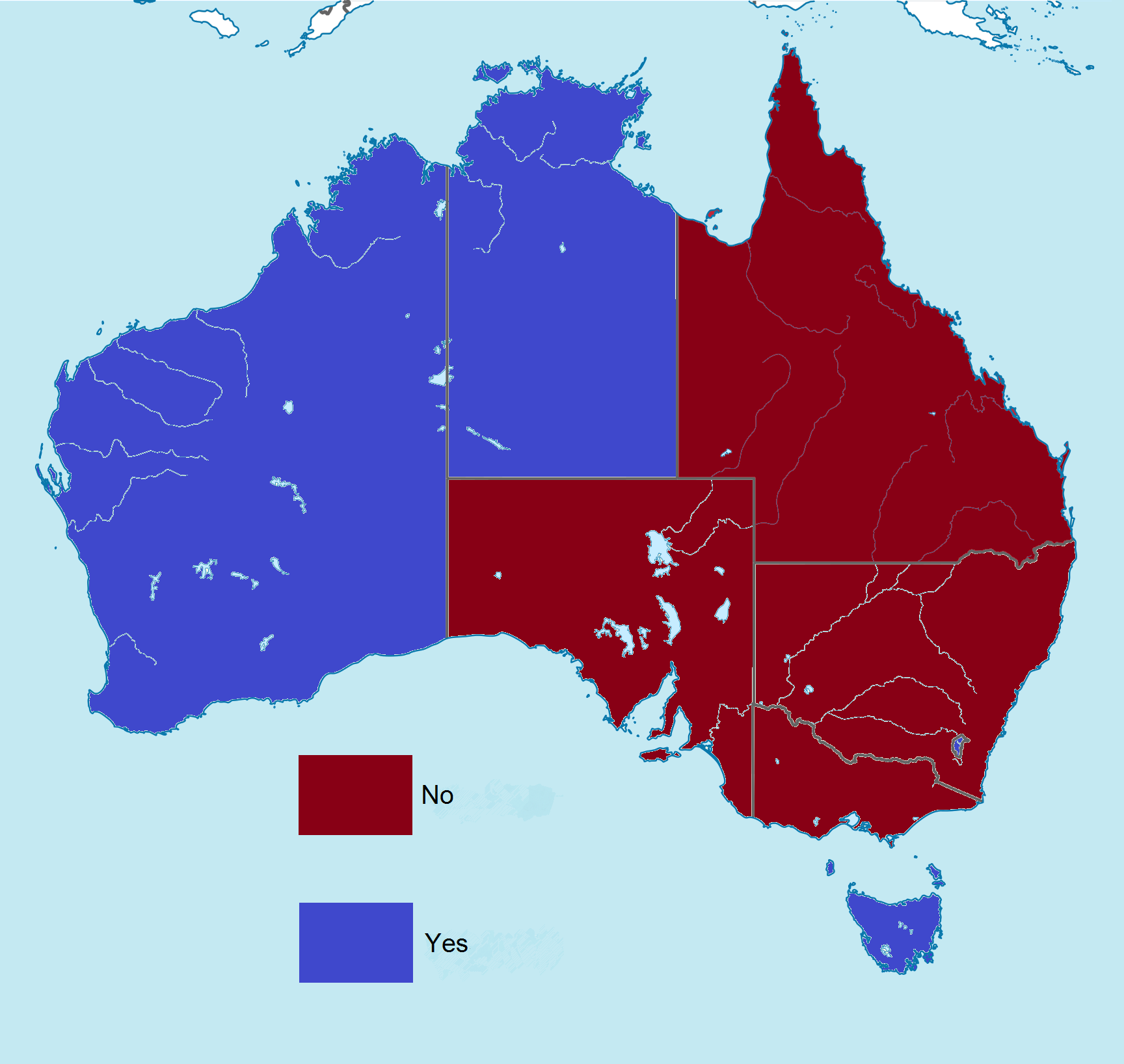 Australian referendum results by states, 1917